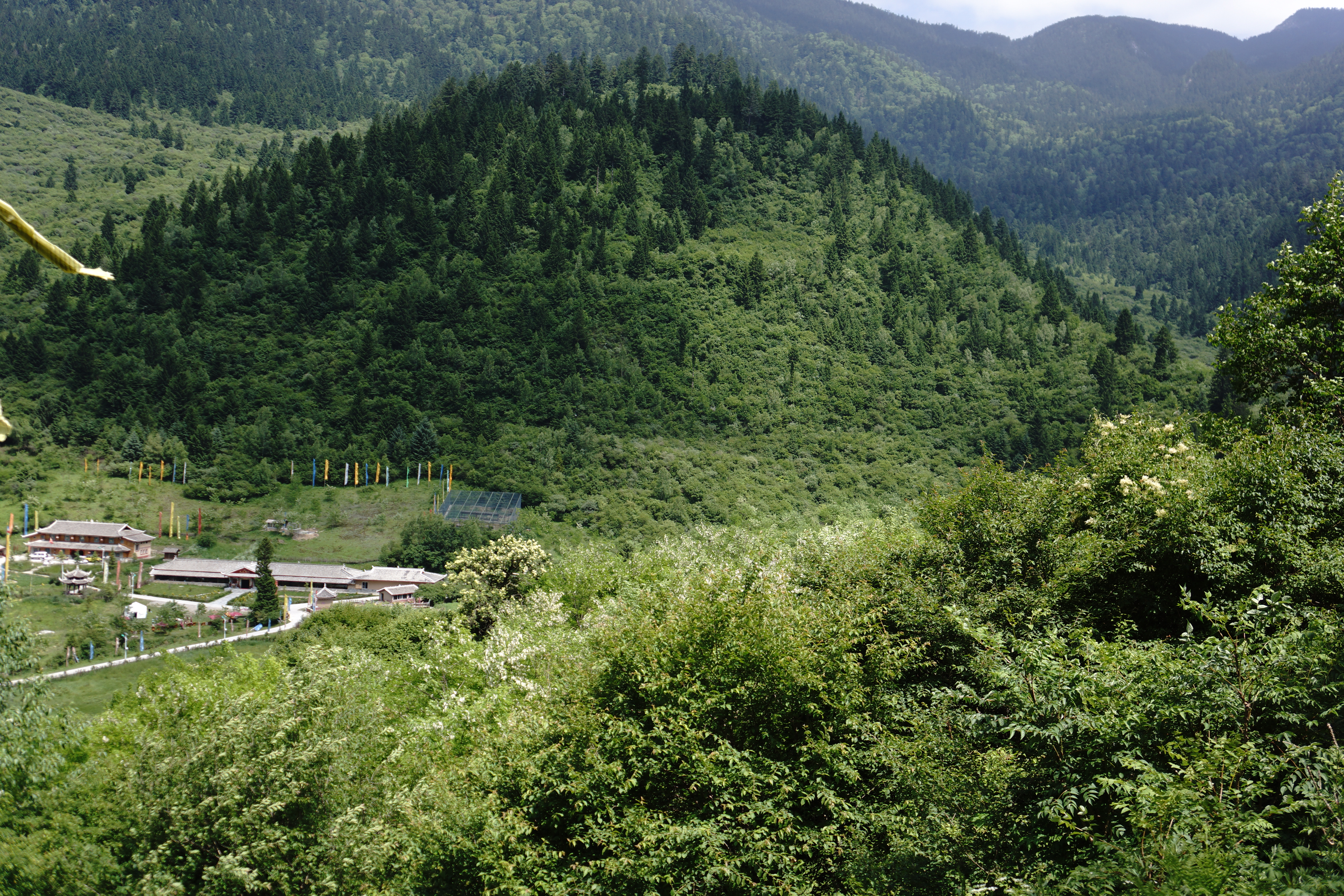 View of horses center - Zhongchagou , Aba , Sichuan , China